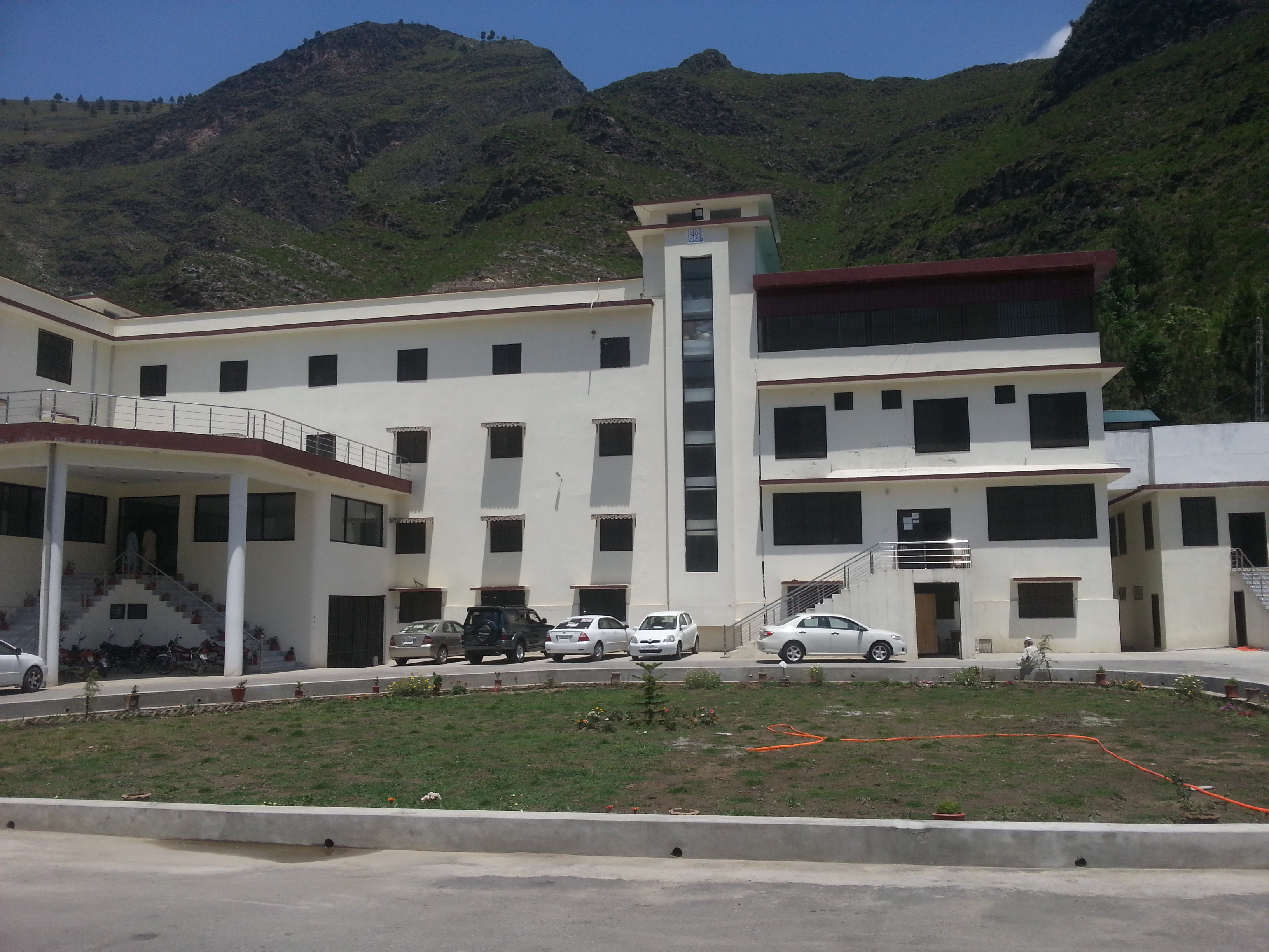 Swat Board located in Kokrai on Marghazar road